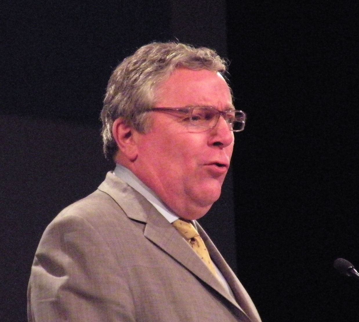 Timothy Clement-Jones, Baron Clement-Jones, addressing a Liberal Democrat conference in the Bournemouth International Centre